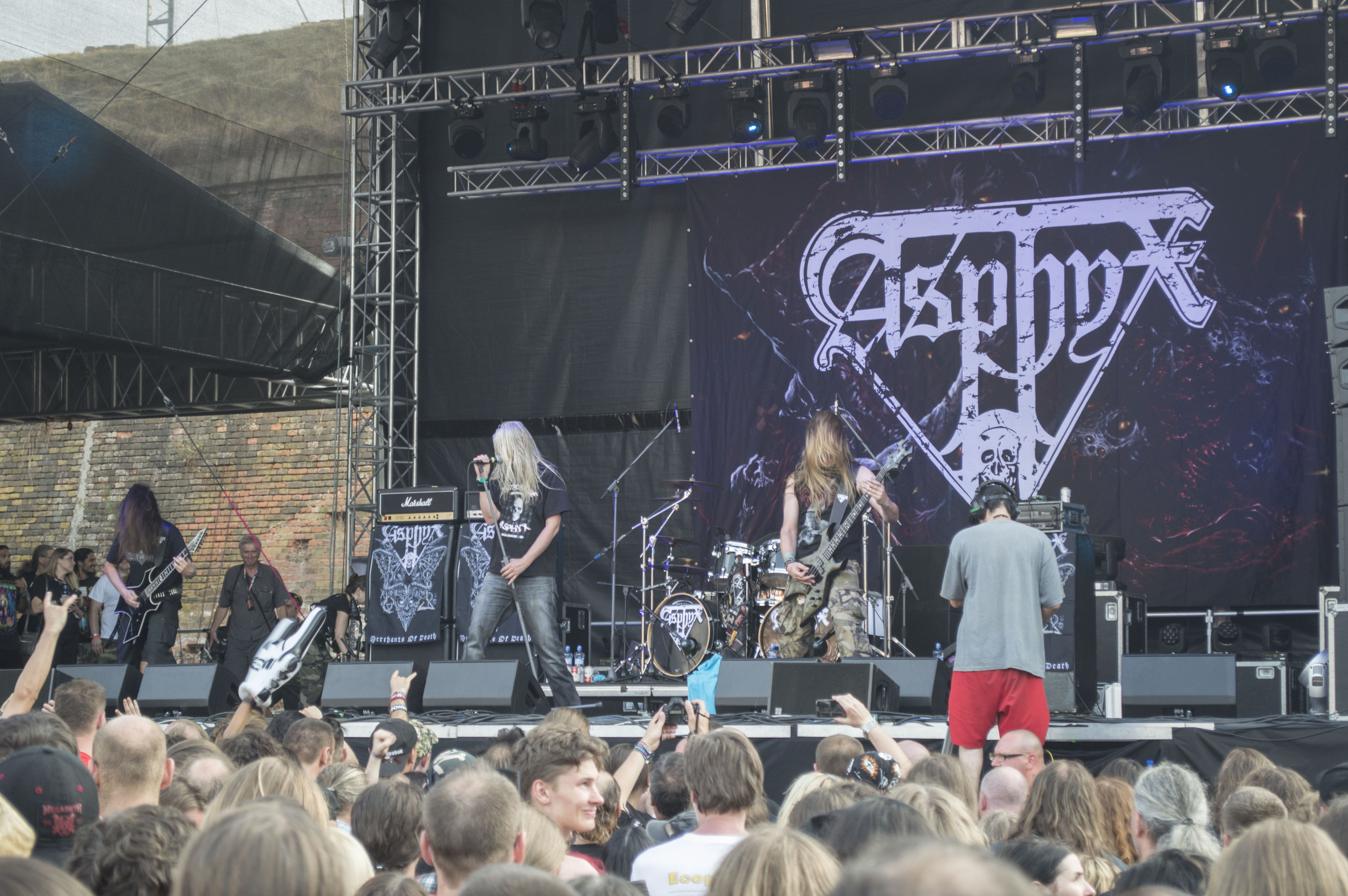 Band Asphyx performing at Brutal Assault festival in Czech republic. 2015